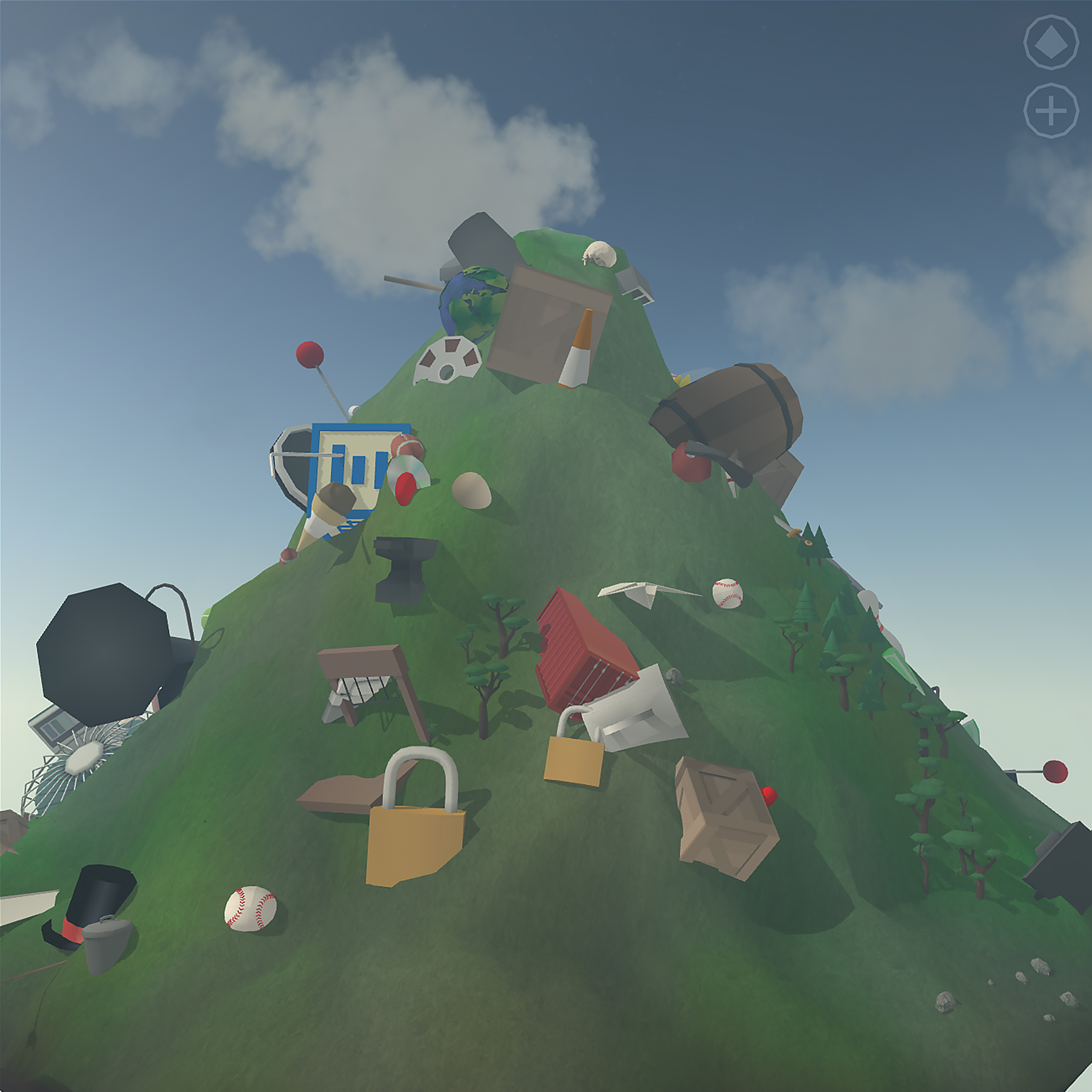 Mountain video game screenshot